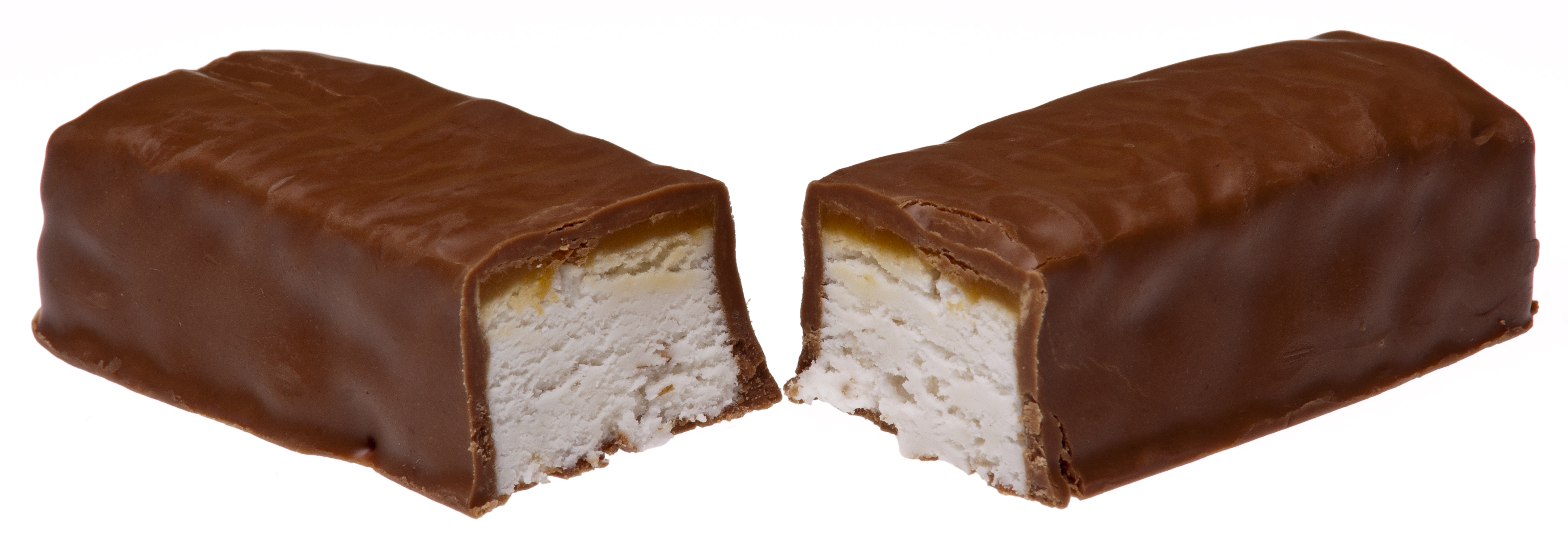 An Elite brand Egozi Israeli candy bar.